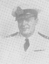 Greek Captain Georgios Blessas (1905-1943), commander of Greek destroyer «Vasilissa Olga». Photo of unknown author circa 1941.